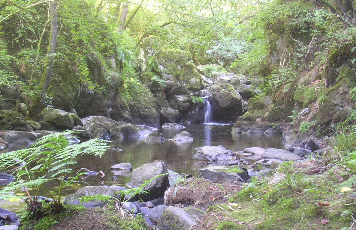 Gorges de l'Arcueil (Cantal)